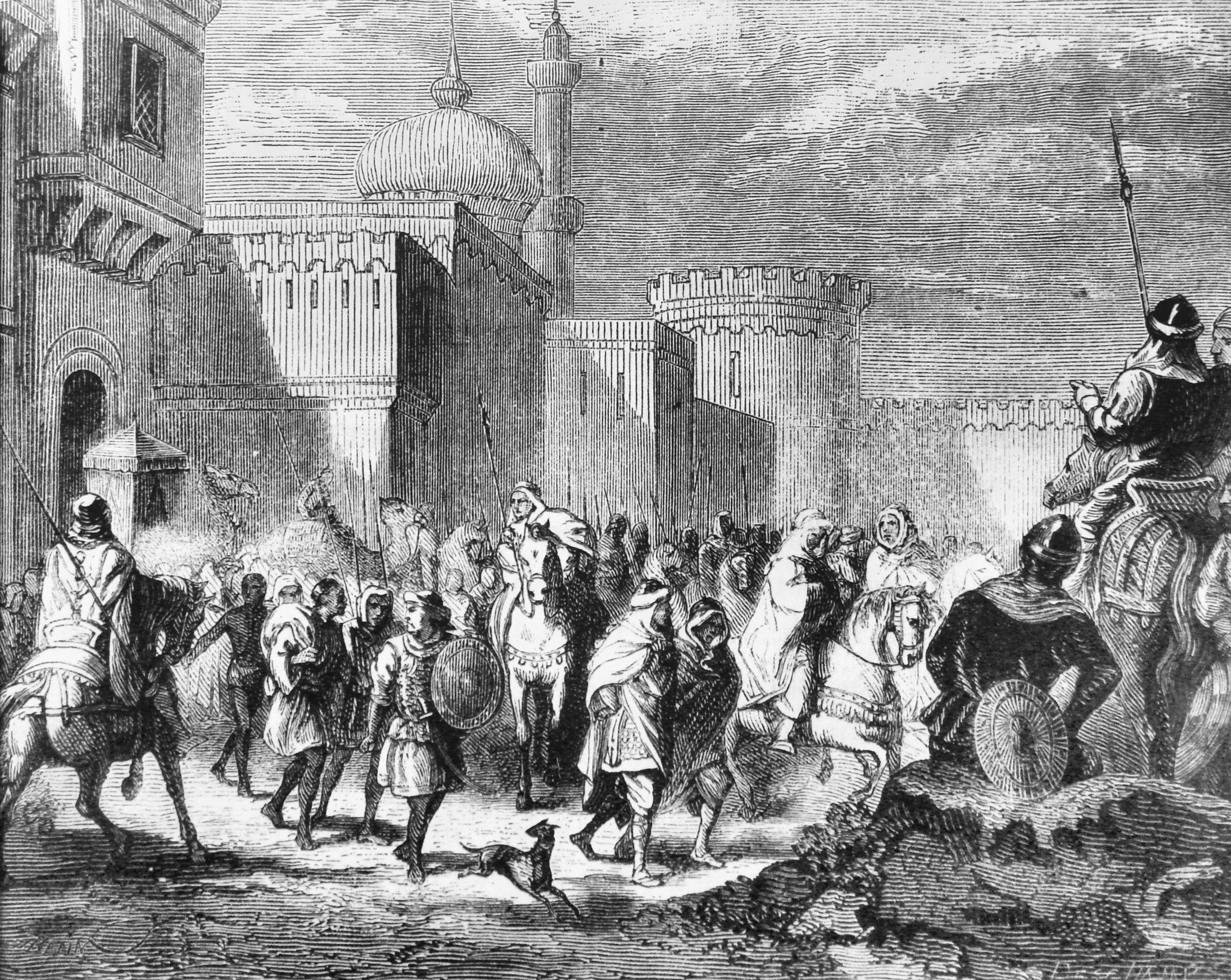 Muslim troops leaving Narbonne to Pepin le Bref in 759.